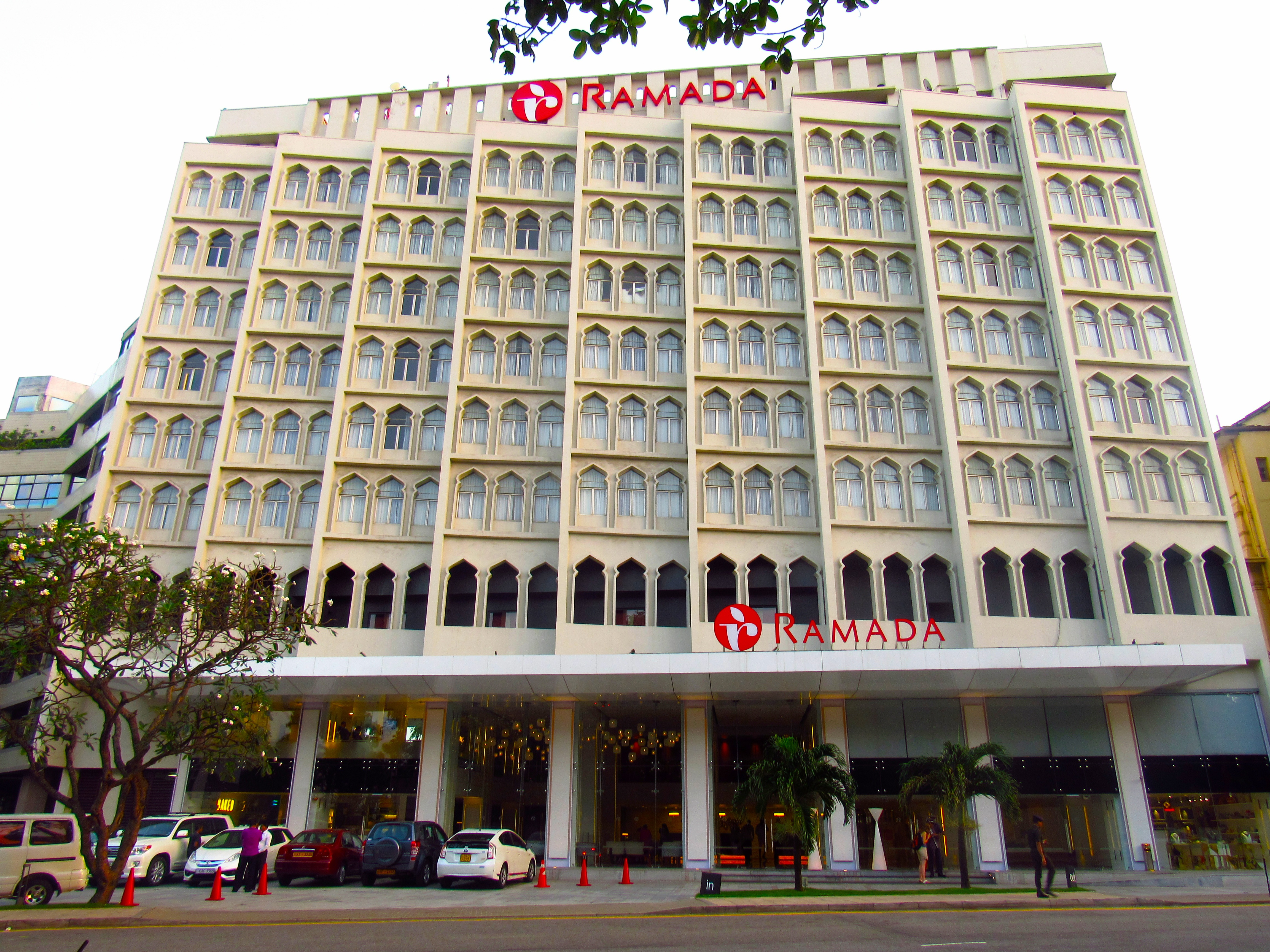 Ramada Colombo.